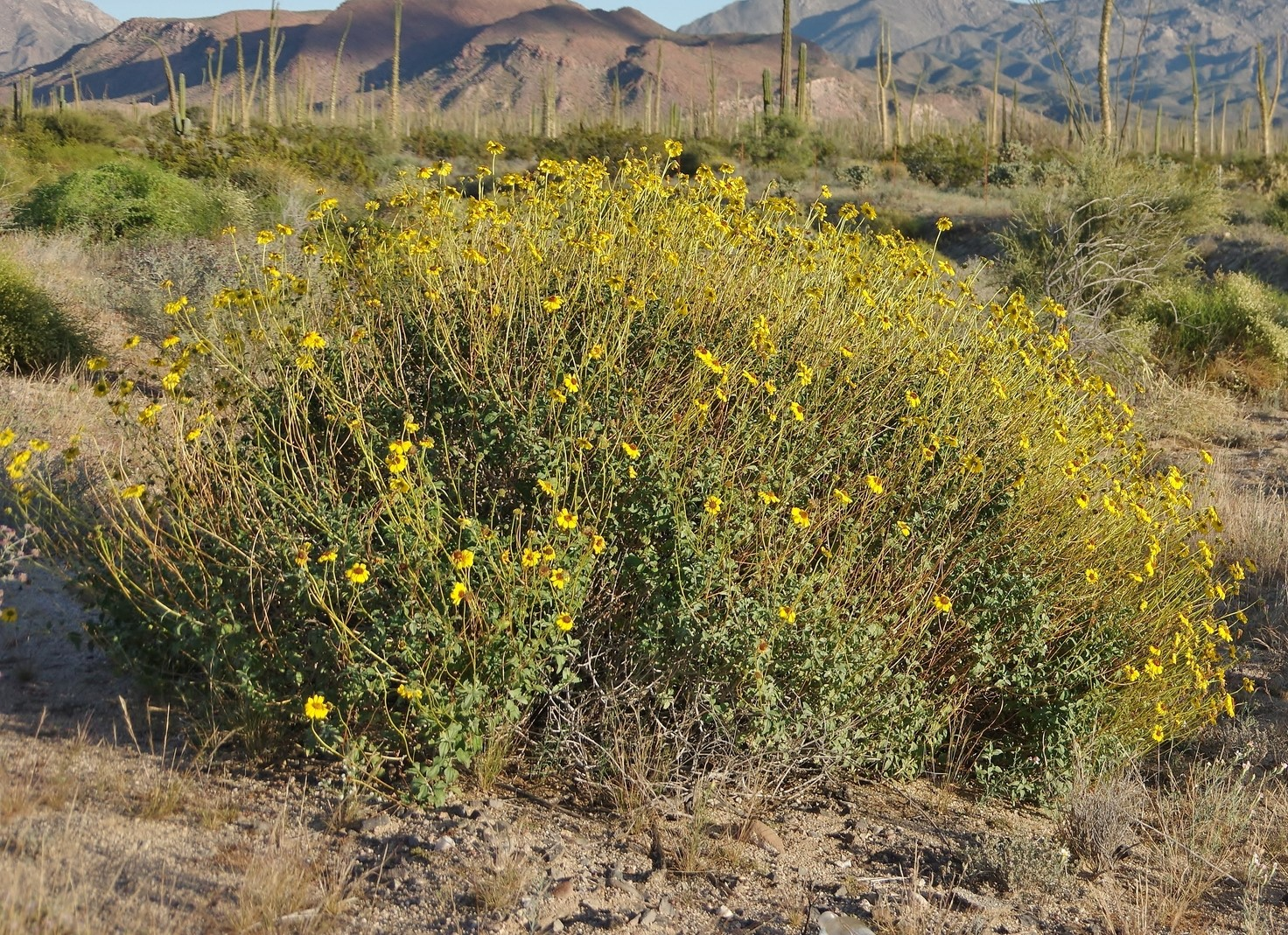 Encelia asperifolia. Species of plant.